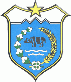 Coat of Pandeglang Regency